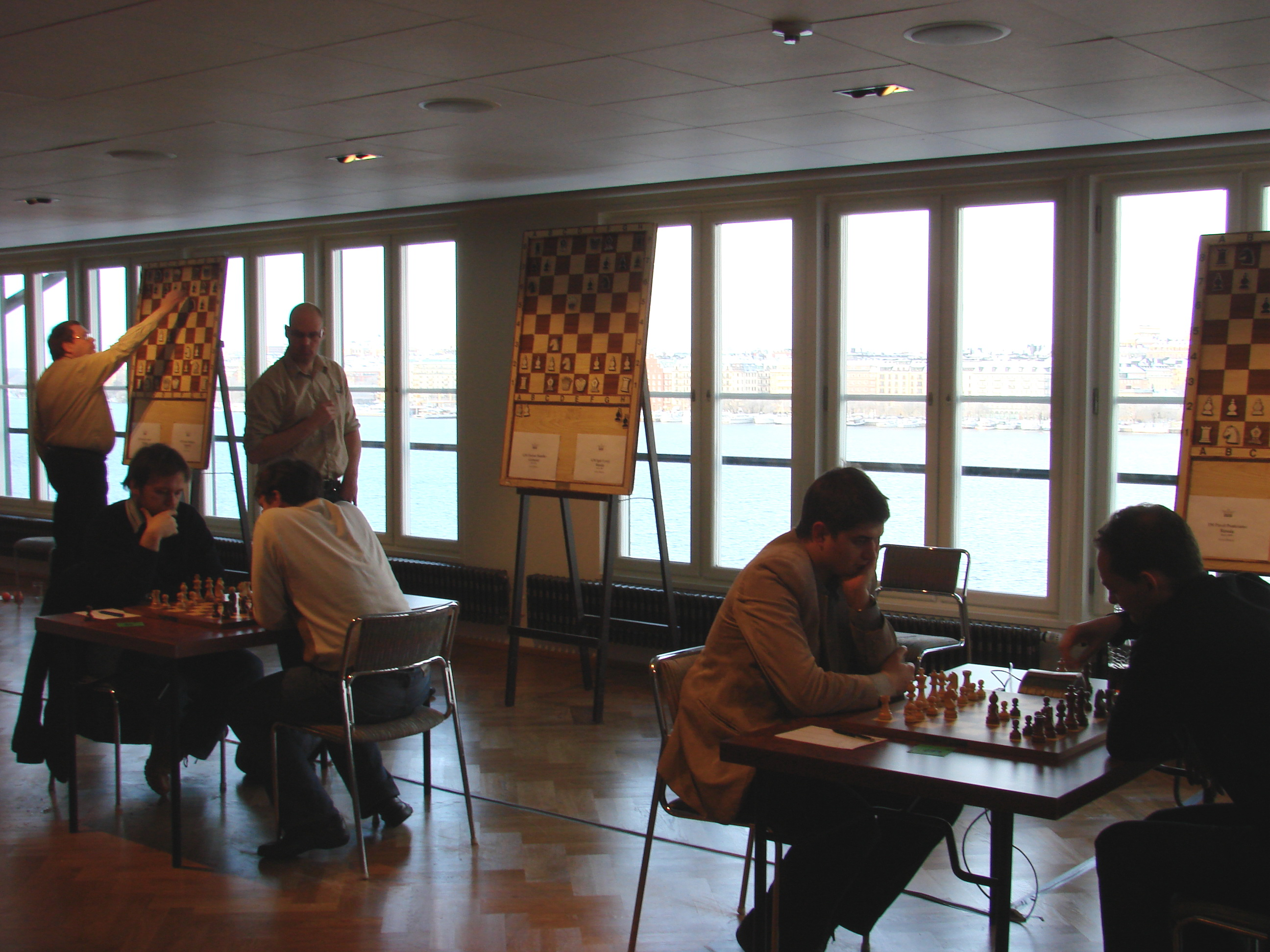 Rilton Cup Stockholm 2009/10